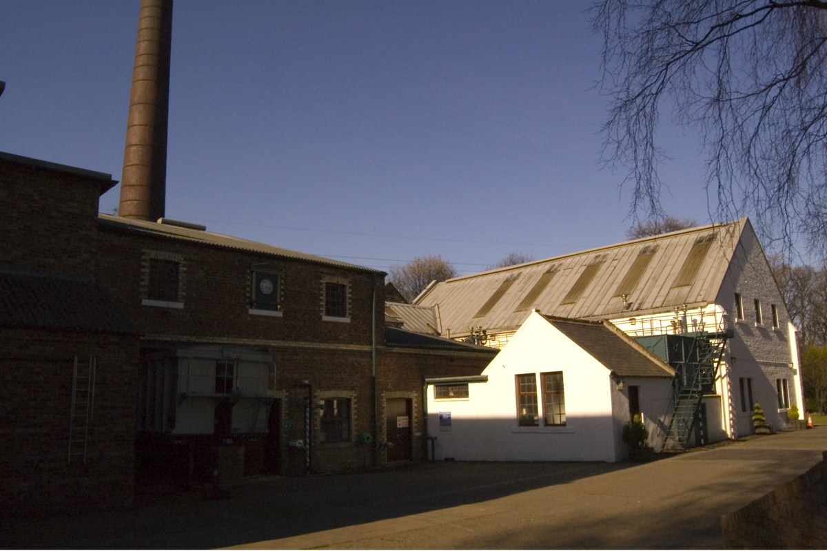 Glenkinchie distillery